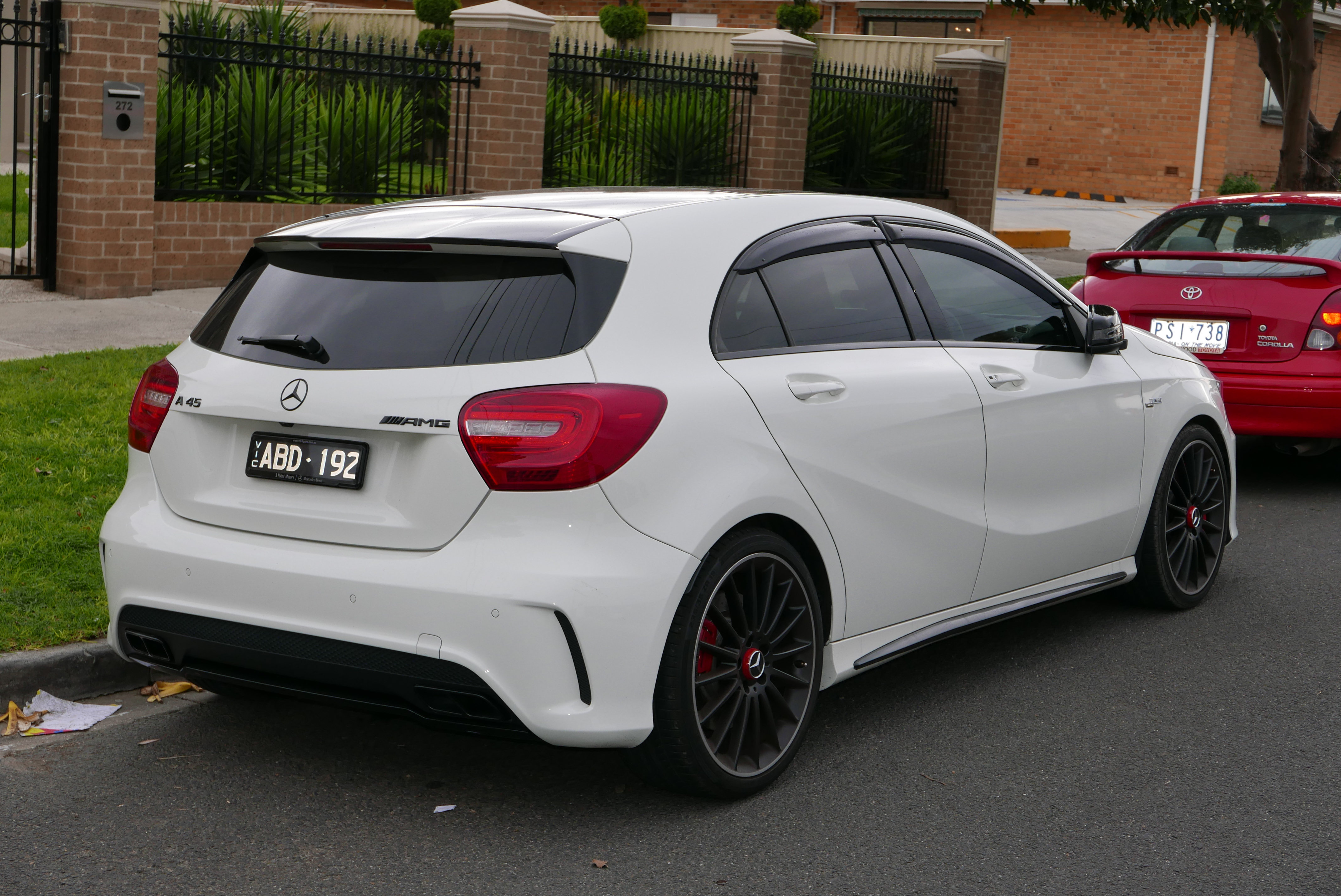 2014 Mercedes-Benz A 45 AMG (W 176) 4MATIC hatchback. Photographed in Fairfield, Victoria, Australia. Vehicle registration enquiry resultsJurisdictionVictoriaRegistrationABD192Chassis codeWDD1760522J218401Engine code13398080005716Compliance date2014-01Year of manufacture2014